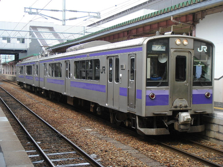 Morioka area 701-1000 series EMU at Morioka Station